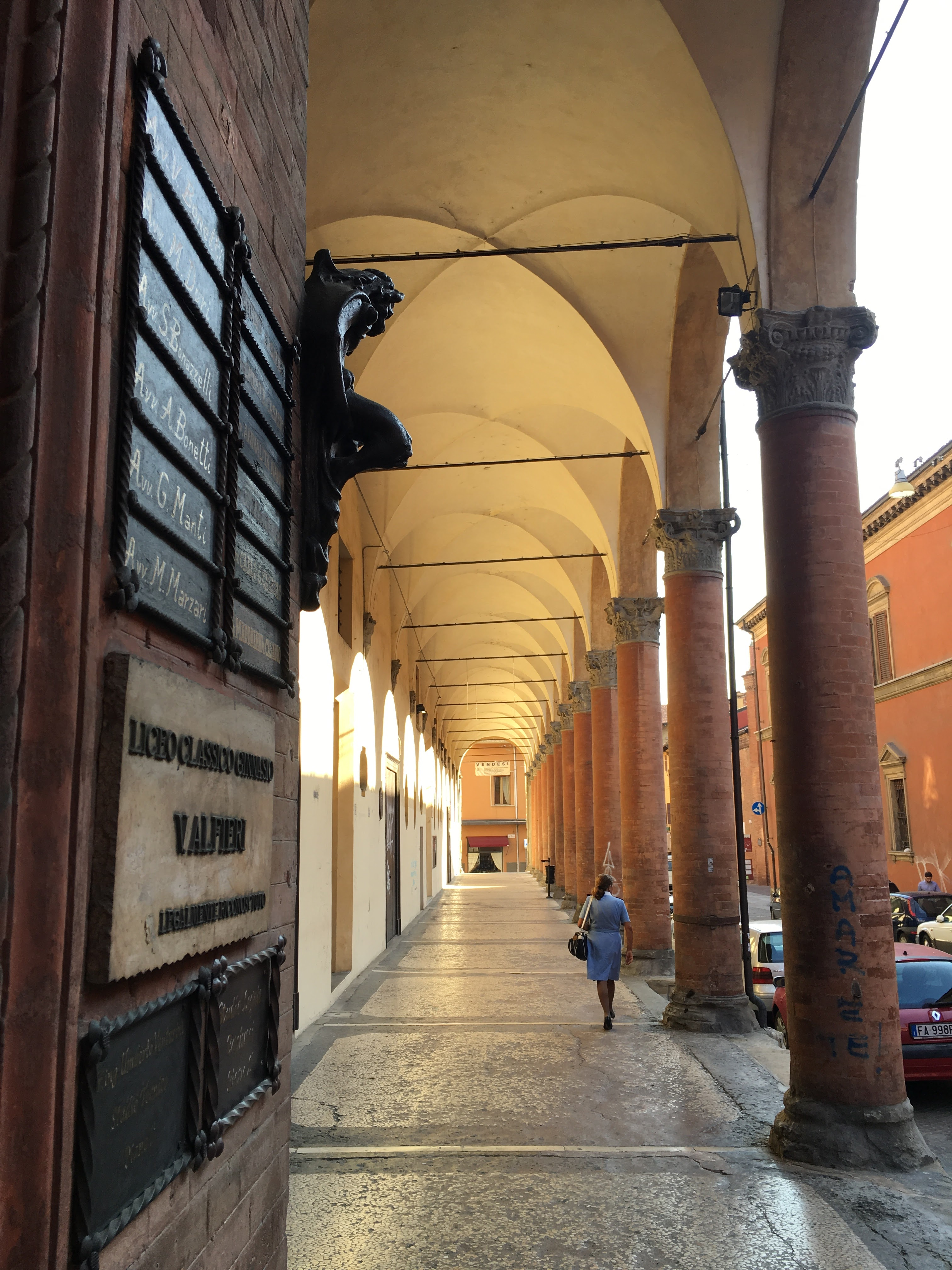 ex ospedale degli innocenti in bologna